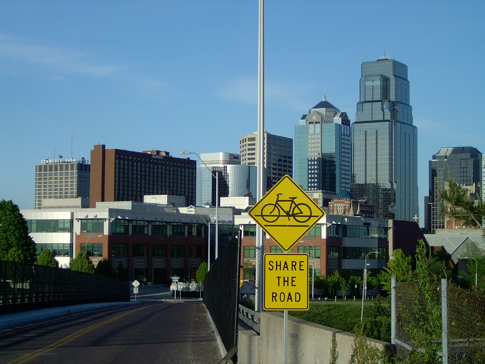 A view of Kansas City, MissouriIM004375